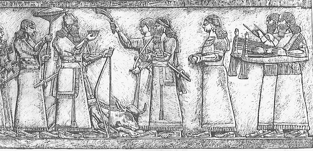 Original description: Ritual meeting of Ashur-nasir-pal II after successful hunt